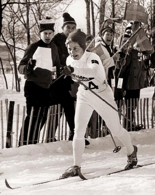 Swedish cross-country skier Toini Gustafsson Rönnlund at the Women's 5 kilometer race at the 1968 Winter Olympics Grenoble, France